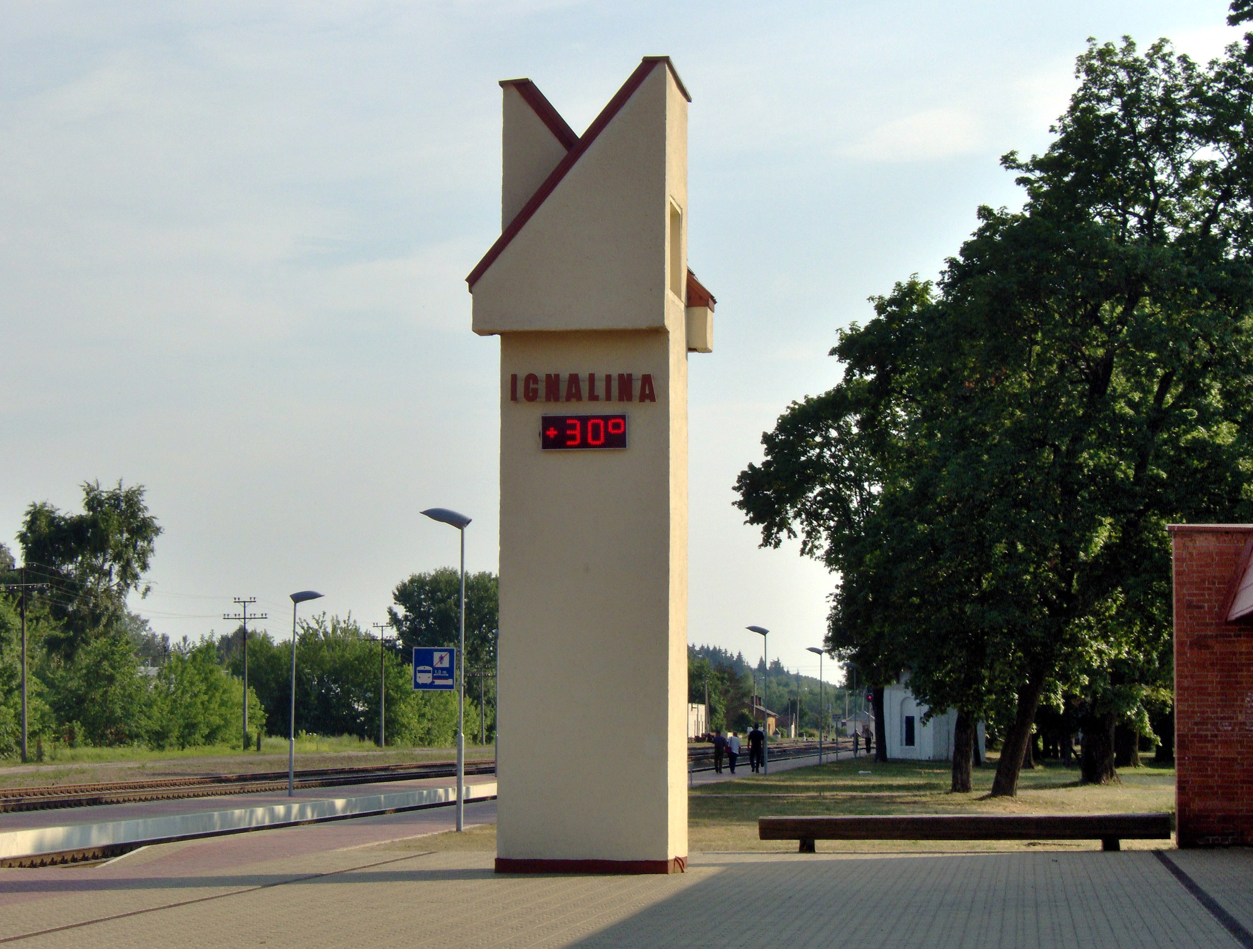 Ignalina train station, Lithuania